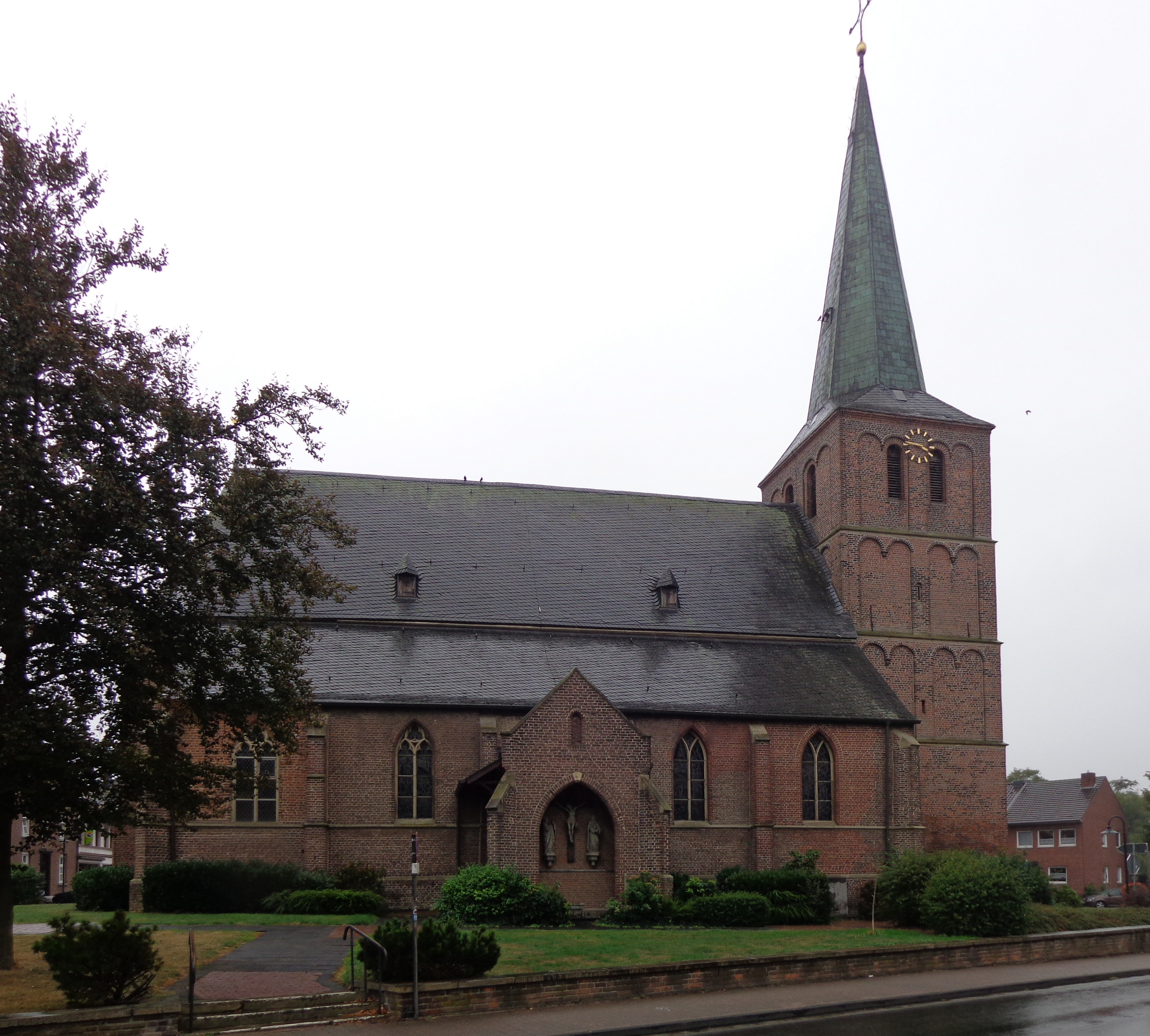 This is a photograph of an architectural monument., no. GE10023